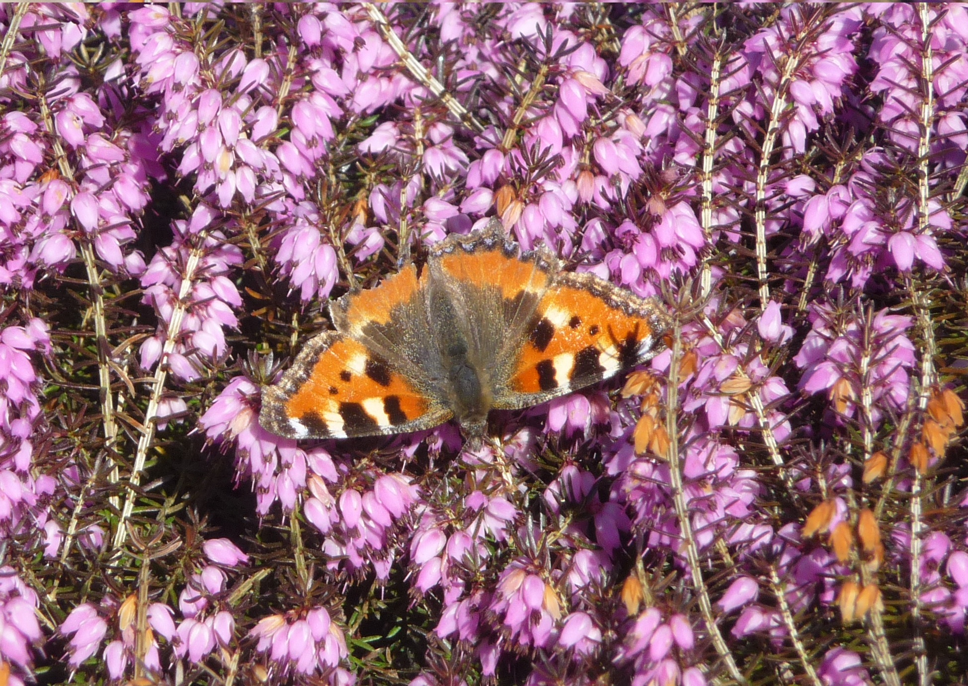 A small tortoiseshell on common heather. Photographed in the spring 2012.